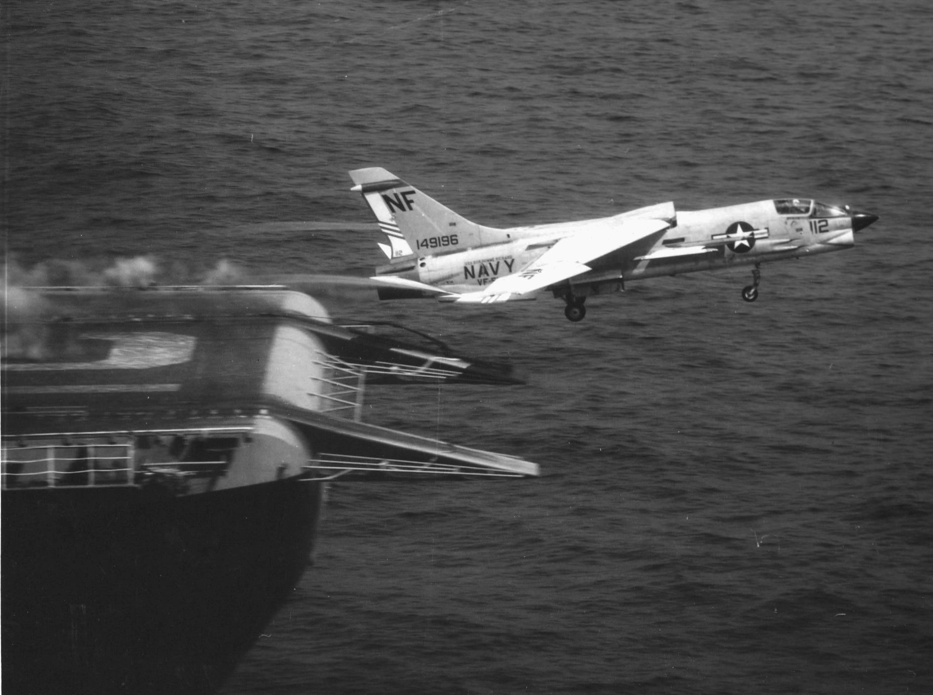 A U.S. Navy Vought F-8J Crusader (BuNo 149196) of Fighter Squadron 51 (VF-51) "Screaming Eagles" launches from the flight deck of the aircraft carrier USS Bon Homme Richard (CVA-31) operating in the Gulf of Tonkin. VF-51 was assigned to Carrier Air Wing 5 (CVW-5) aboard the Bon Homme Richard for a deployment to Vietnam from 20 April to 12 November 1970.